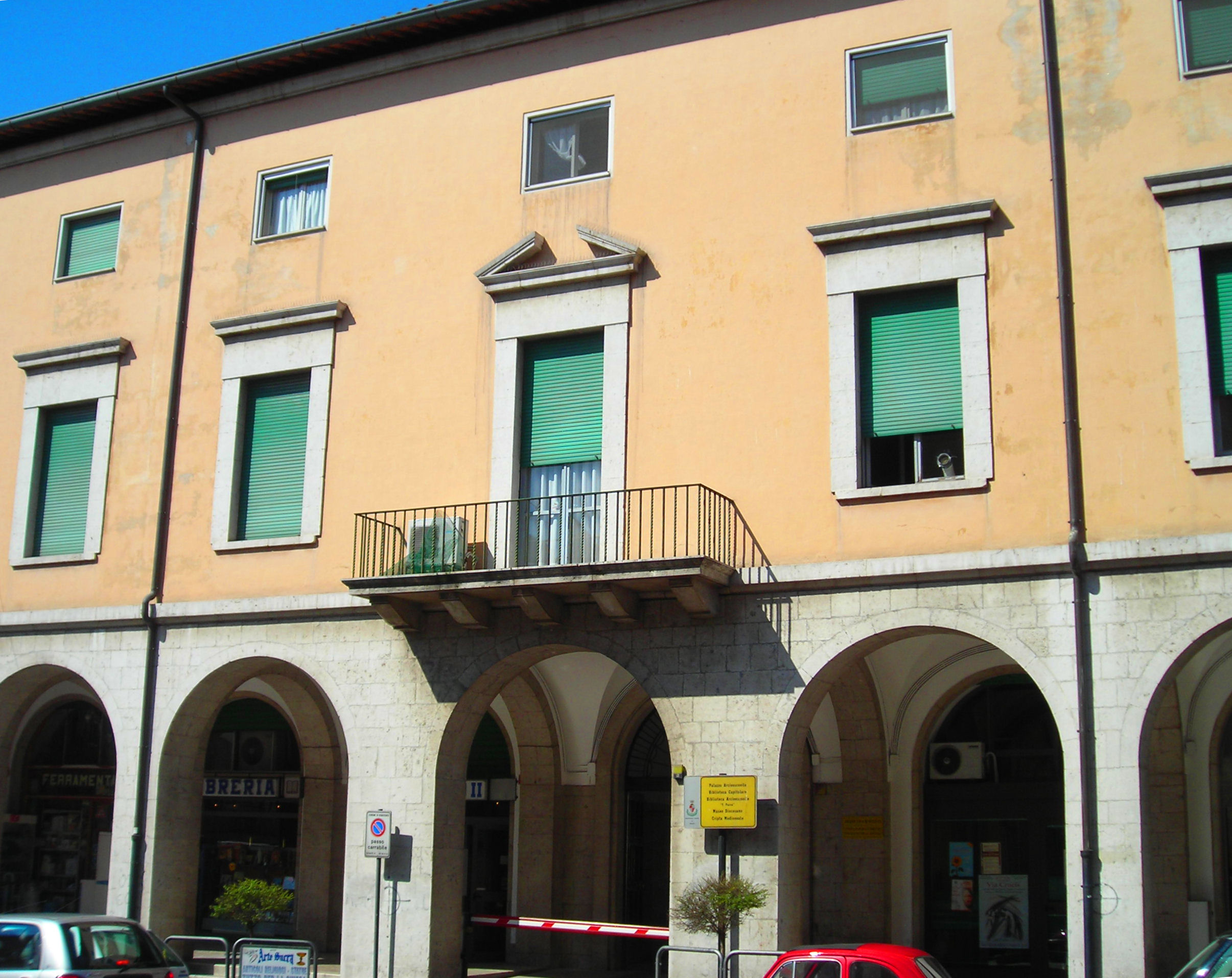 Archbishop Palace, Benevento